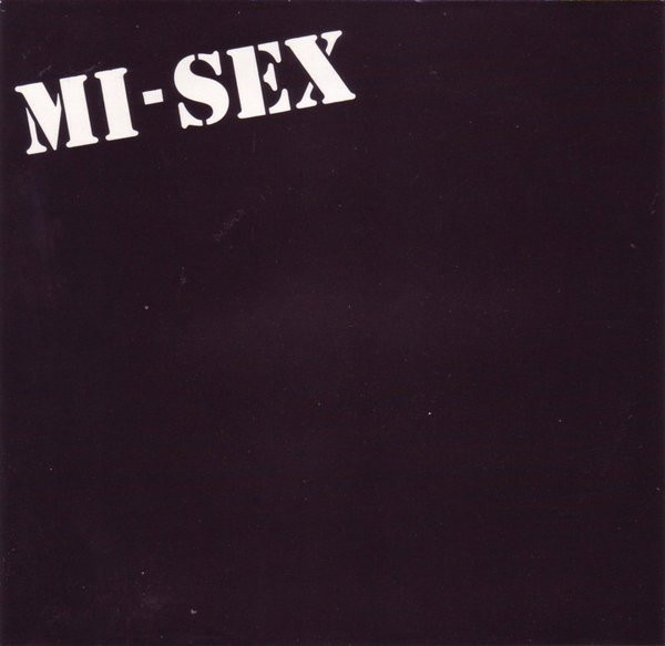 Falling In and Out by Mi-Sex.jpg